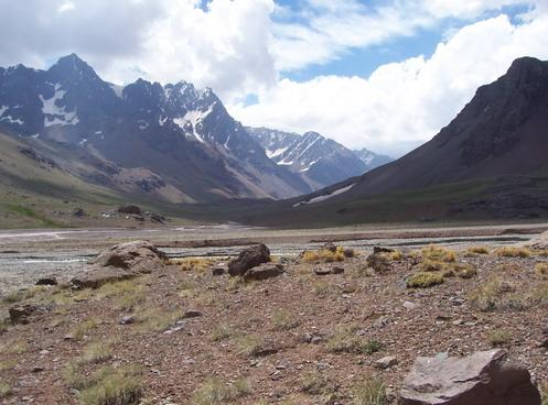 Mendoza River. Behind it, Andes mountains